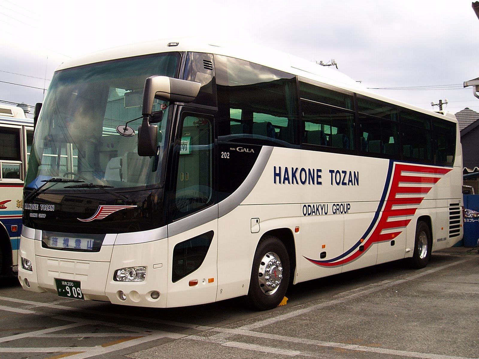 Shonan Hakone Tozan Bus Isuzu ADG-RU1ESAG 2007-11-19 Photo by Cassiopeia_sweet. This picture is obtaining and photoing permission of the persons concerned.